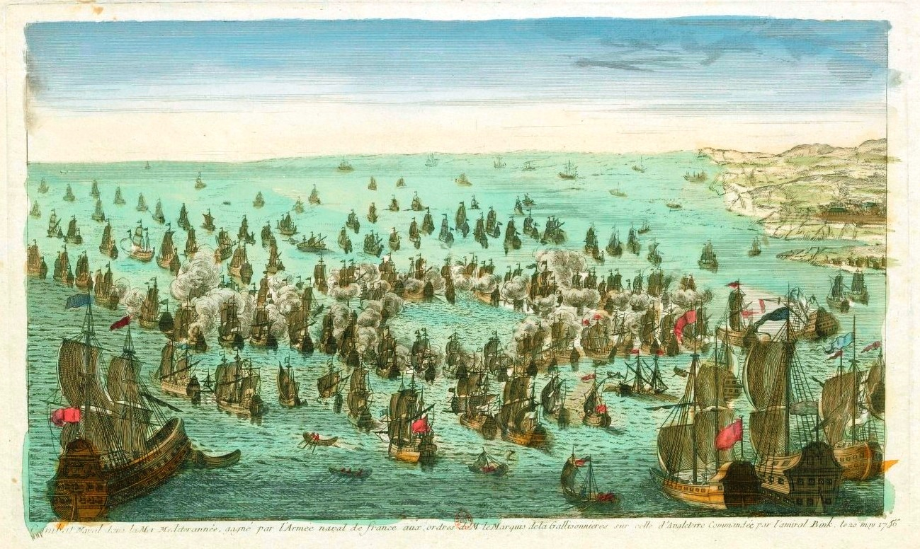 General view of the naval battle of May 20, 1756, shortly after the French landing on Menorca. This drawing is imaginary because the two fleets were not aligned as many ships (12 French ships fighting against 13 British ships).